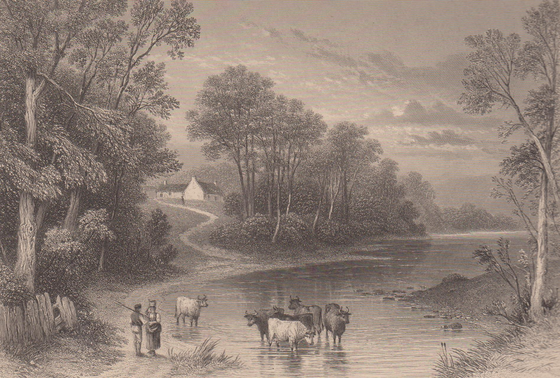 Robert Burns' farm at Ellisland and the River Nith circa 1800, Dumfries, Scotland